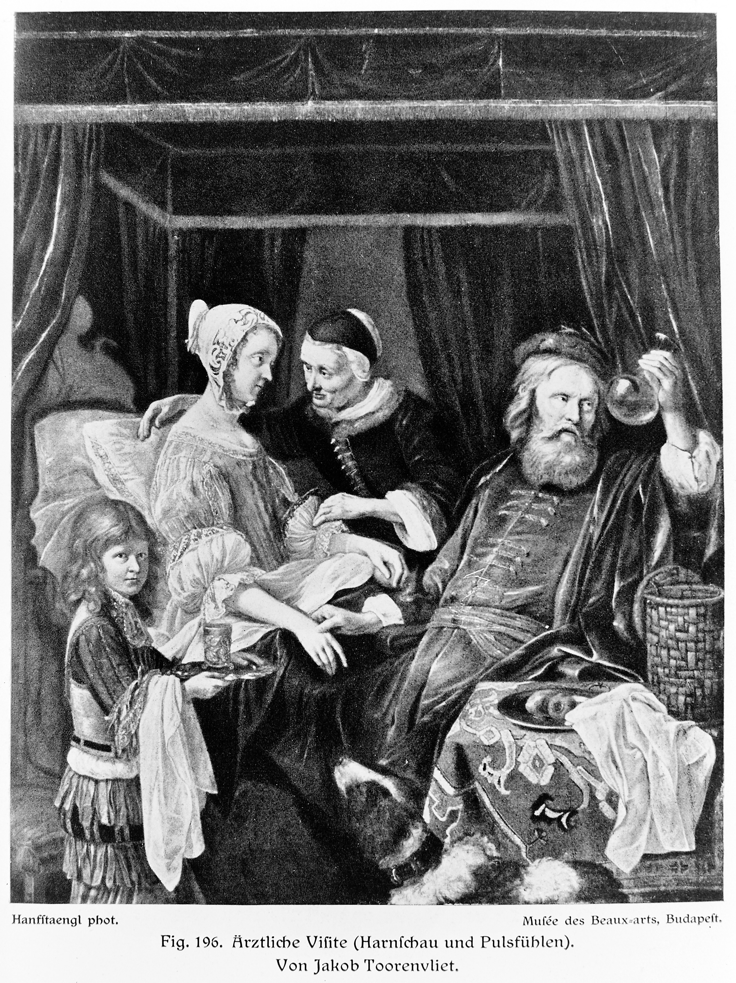 The physician and the patient by Jakob Toorenvliet. Original in the Musee des beaux-Arts, Budapest. Showing one doctor feeling the pulse and the other examining the urine. General Collections Keywords: Hollander, Eugen; Toorenvliet, Jacob; Diagnosis